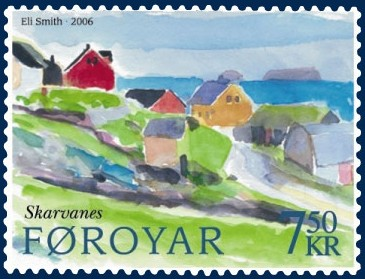 Stamp FO 574 of the Faroe Islands: The Isle of Sandoy: Skarvanes